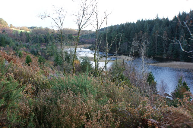 Llyn Pencraig